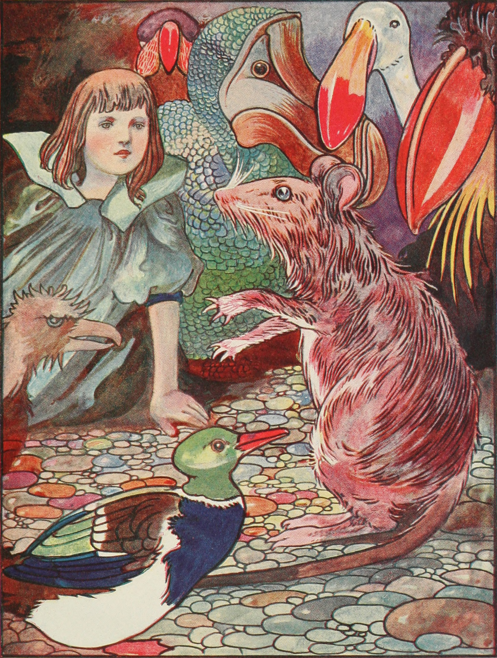 A coloured plate. Caption: “Ahem!” said the Mouse, with an important air.